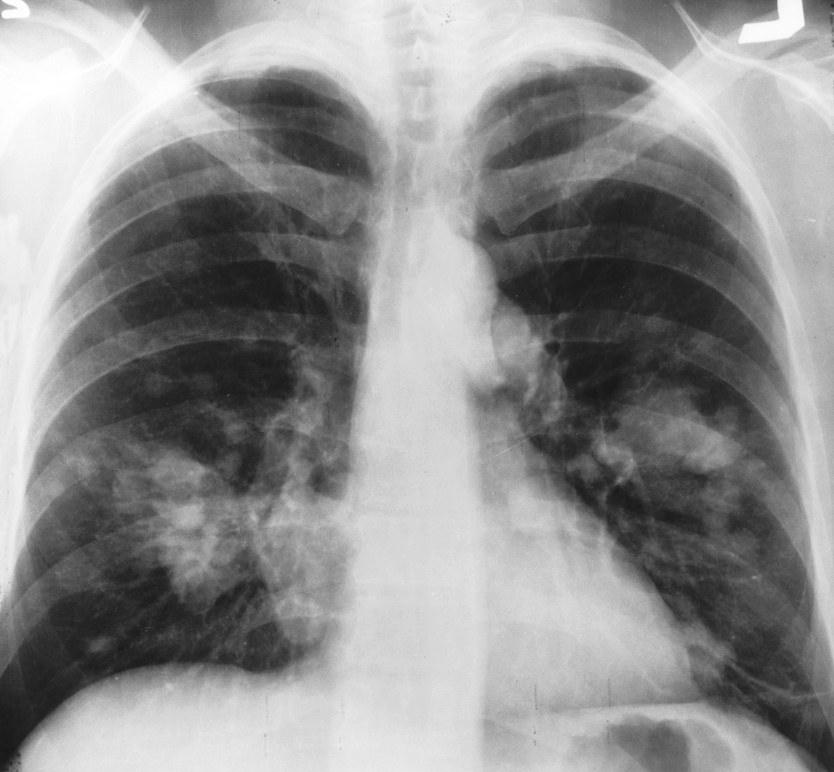 This is an x-ray image of a chest. Both sides of the lungs are visible with a growth on the left side of the lung, which could be lung cancer. Category:Lung cancer Category:x-rays